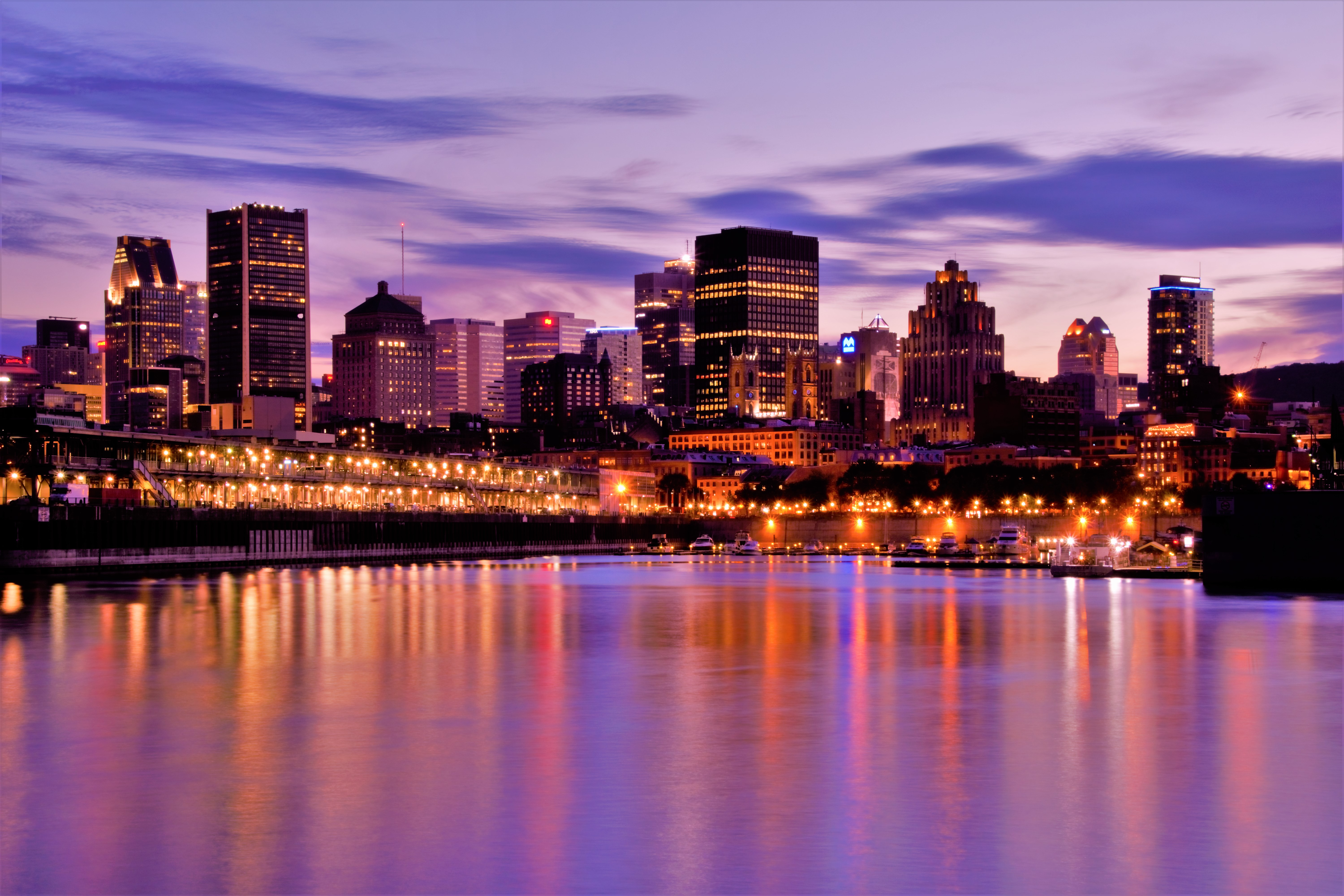 View of downtown Montreal from the Parc de Dieppe ( formerly named Parc de la Cité-du-Havre), Montreal, Quebec, Canada.